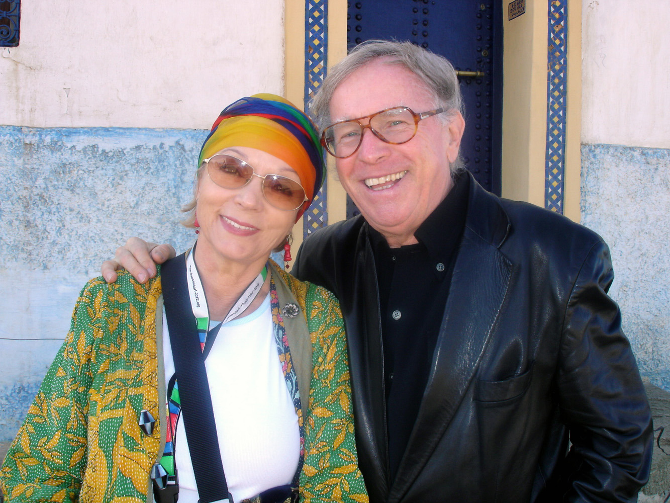 Inge Doldinger and Klaus Doldinger in Morocco on Tour with the band Passport, November 2005